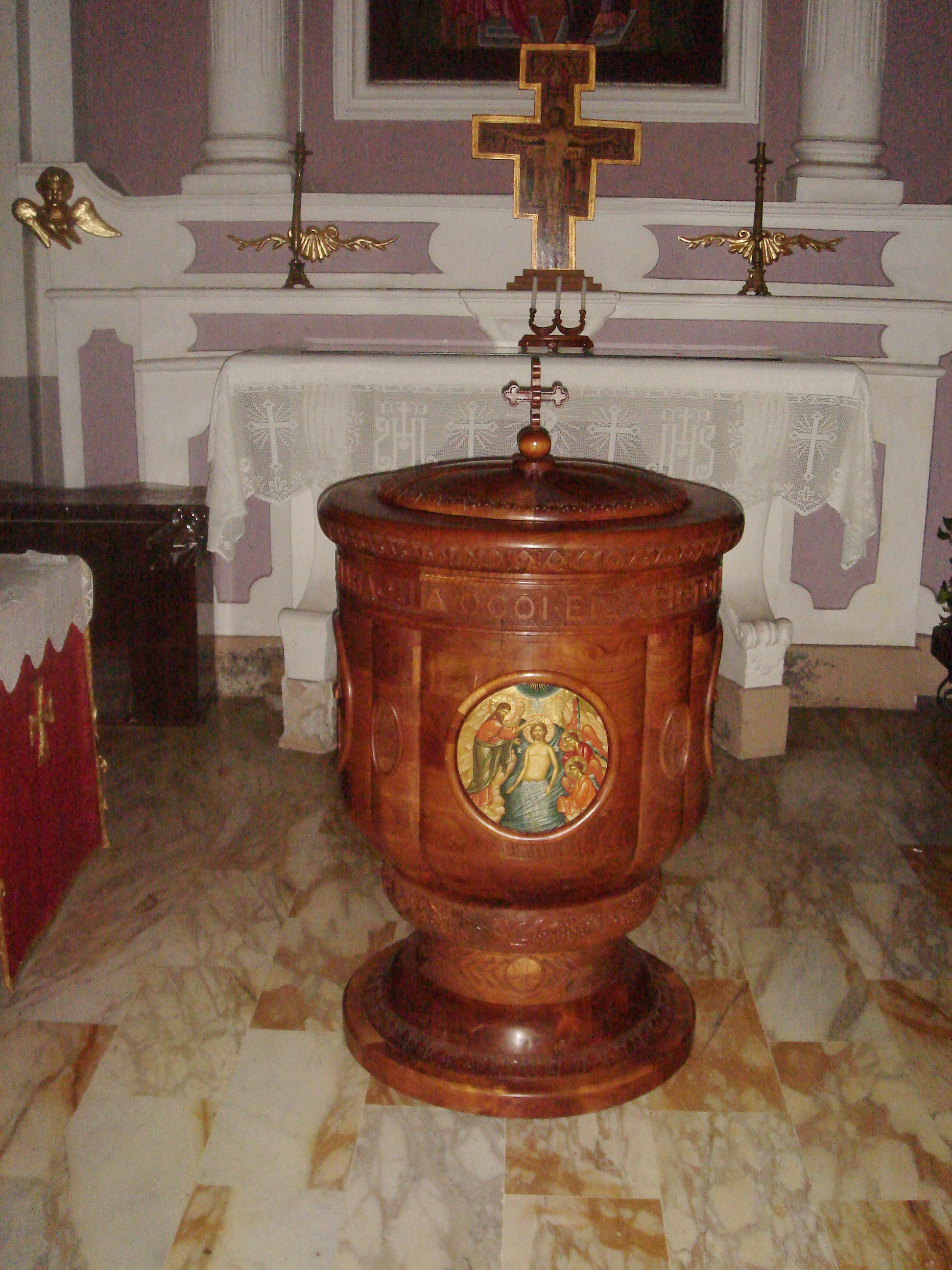 Baptismal font